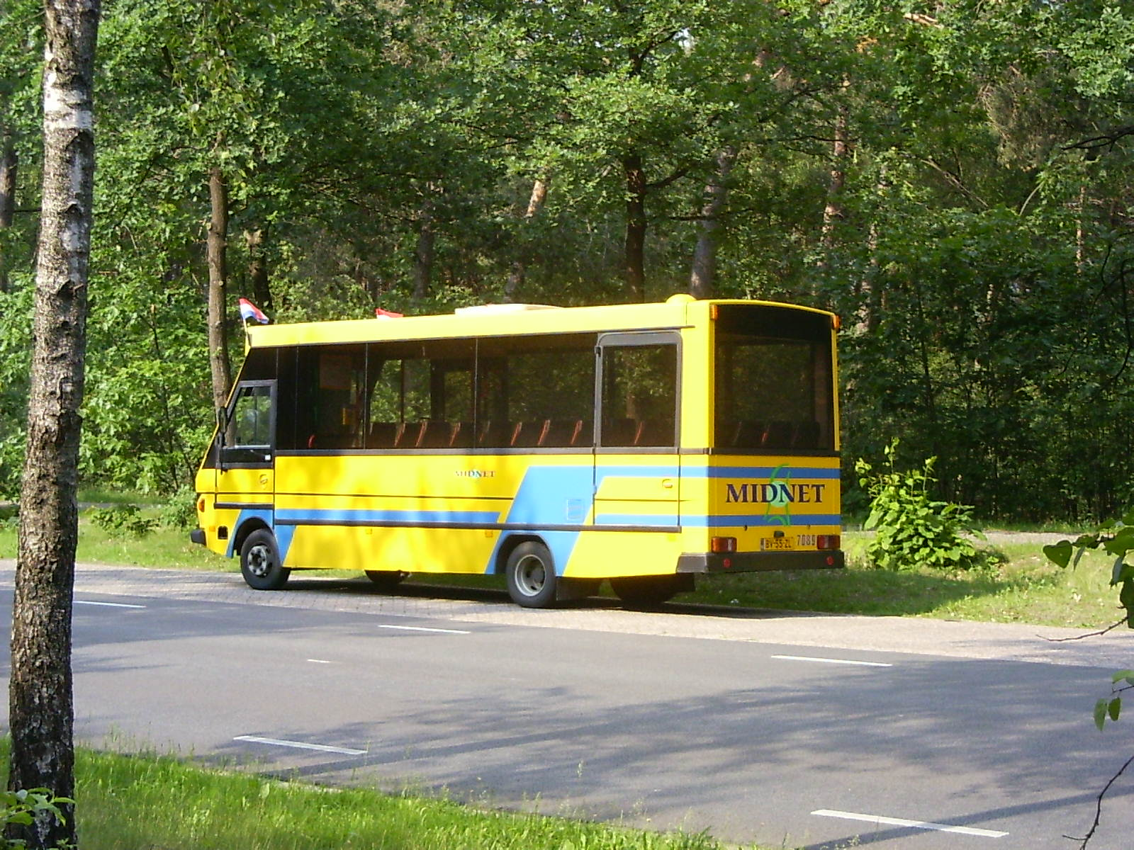 VW LT50 chassis bus.